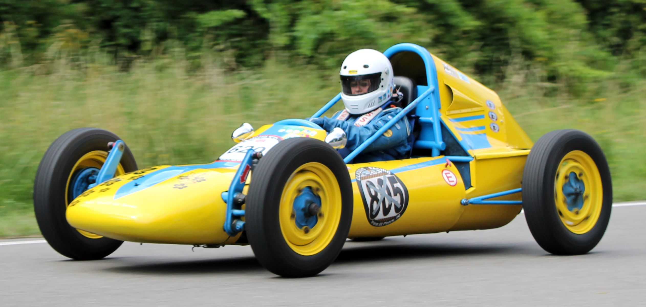 Zink Formel Vau at Solitude Revival 2019